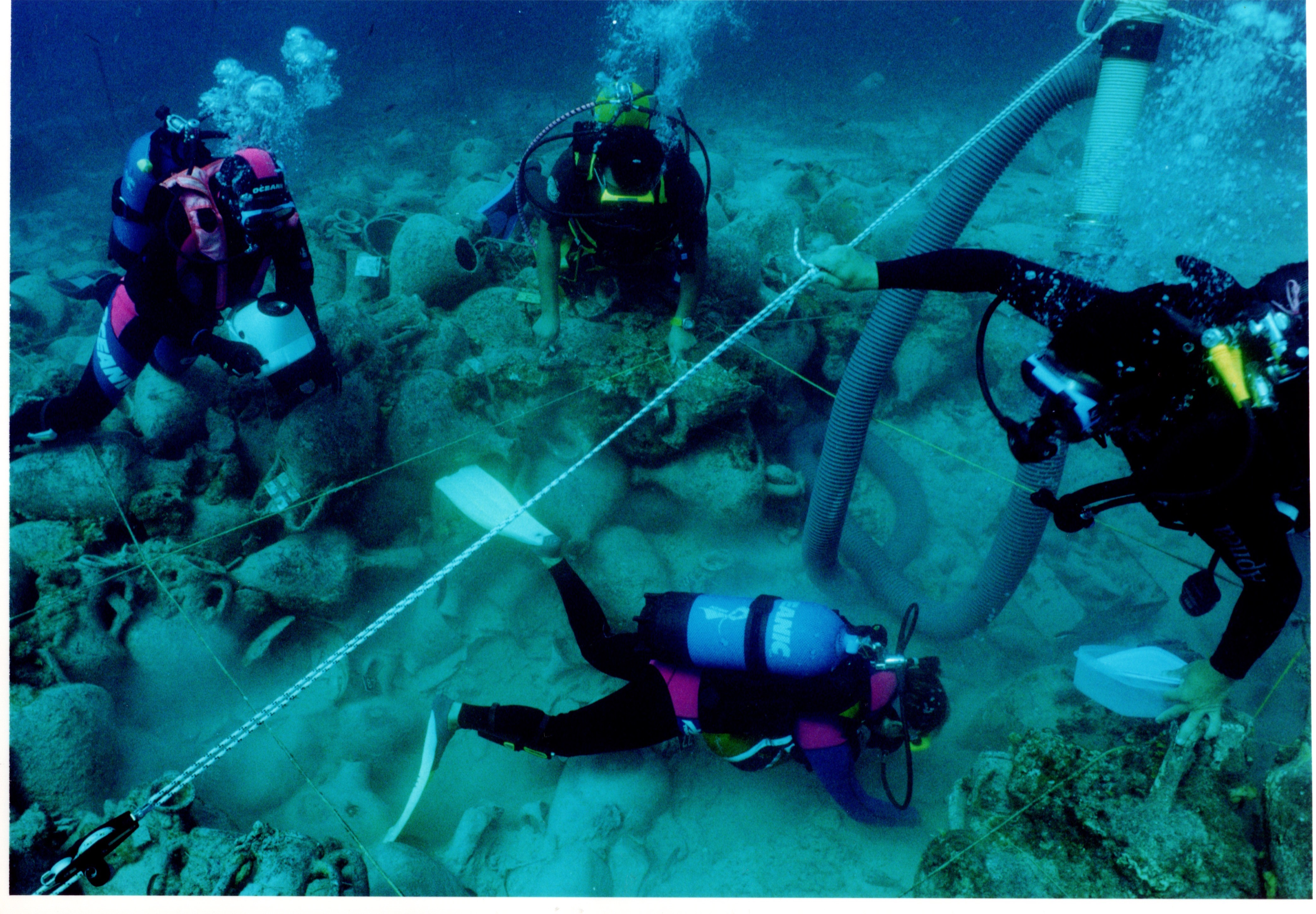 Diving archaeologists excavating the Alonnisos shipwreck in fall 2000, trench Θ3. The 2x2 m rope grid and airlift are visible.